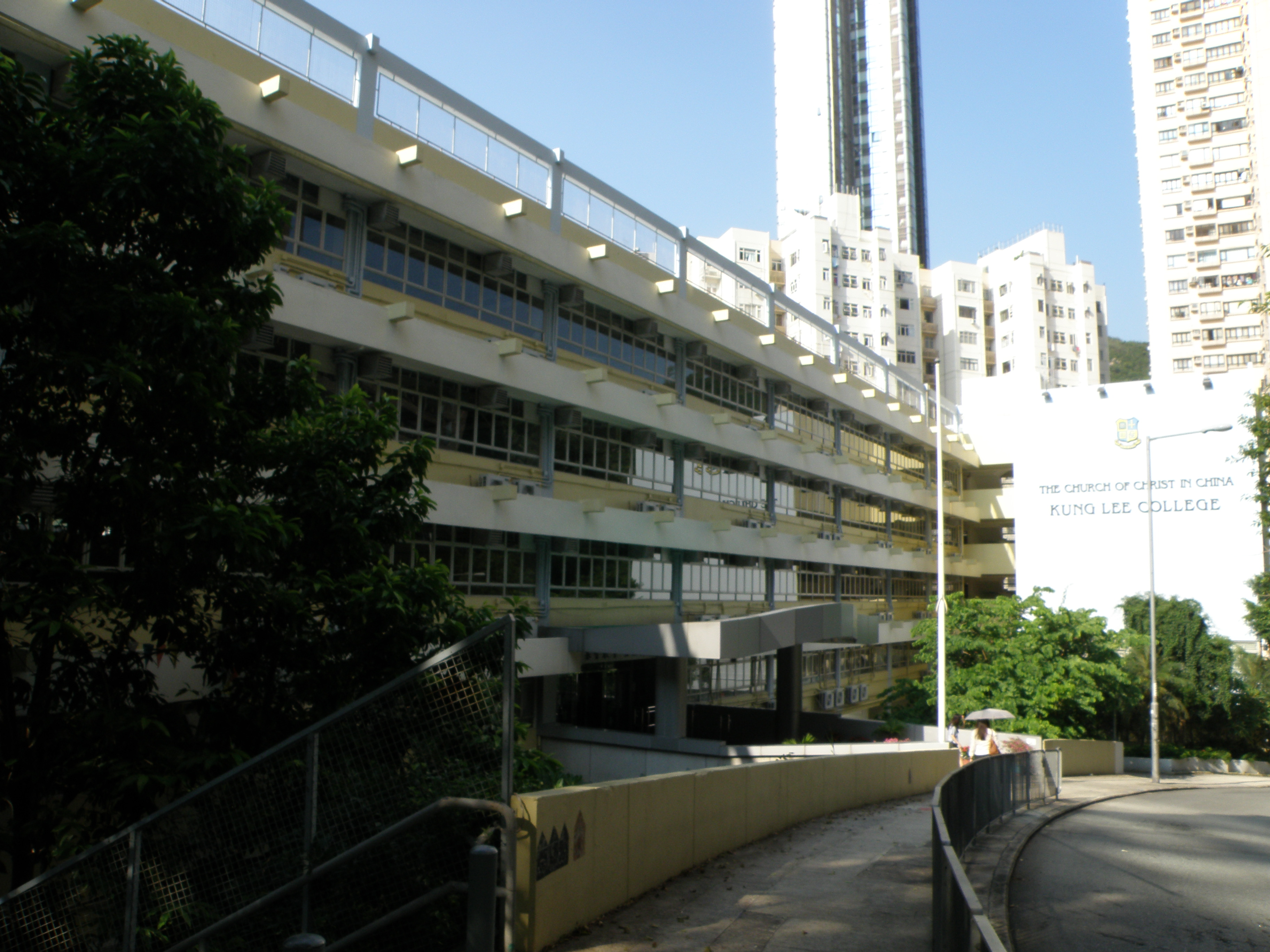 CCC Kung Lee College in Tai Hang, Hong Kong.